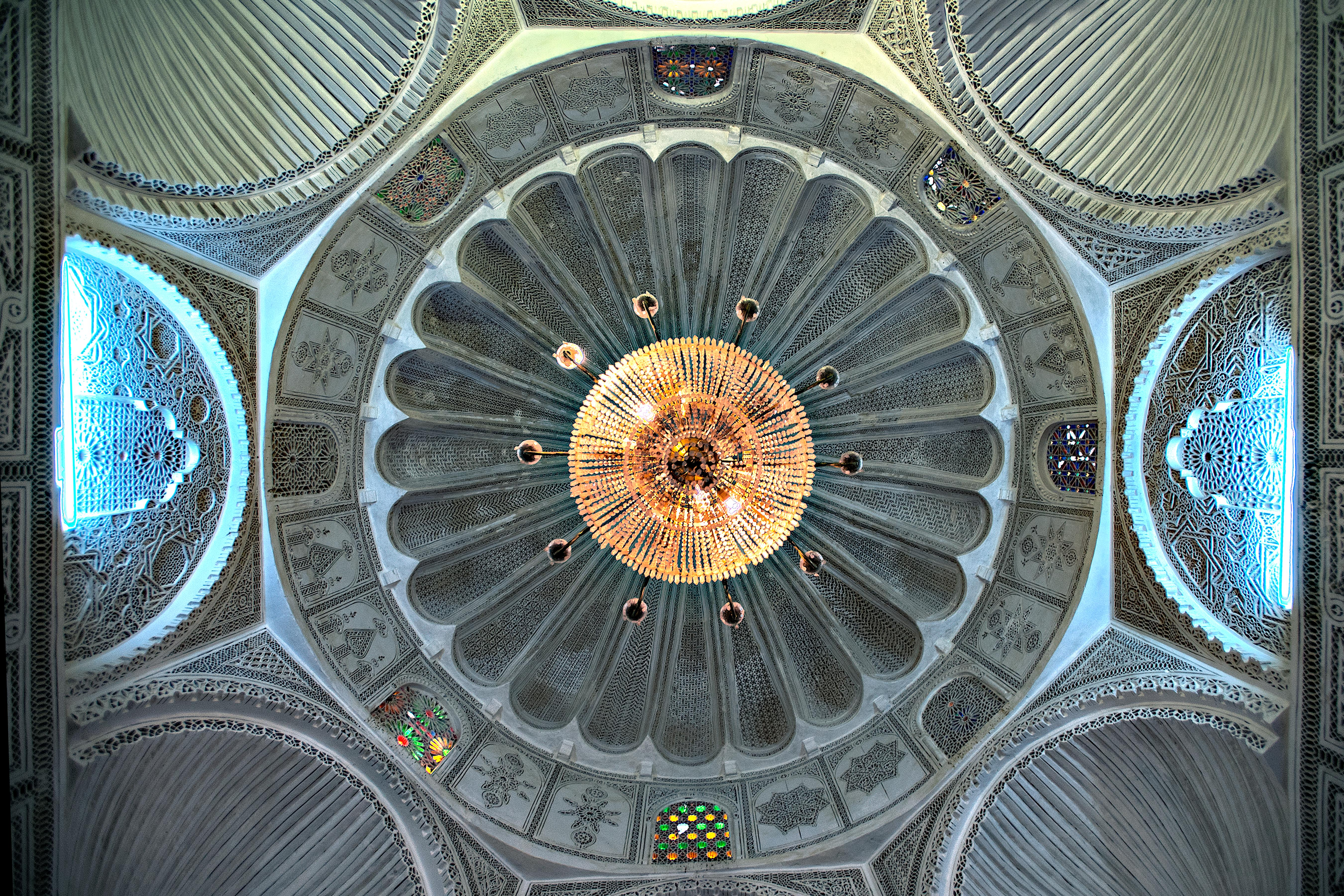 Qubba of the Mosque of the Barber